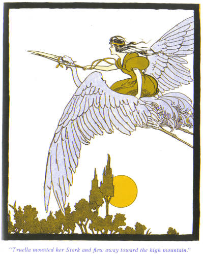 Princess Truella on a stork - Project Gutenberg eText 16529